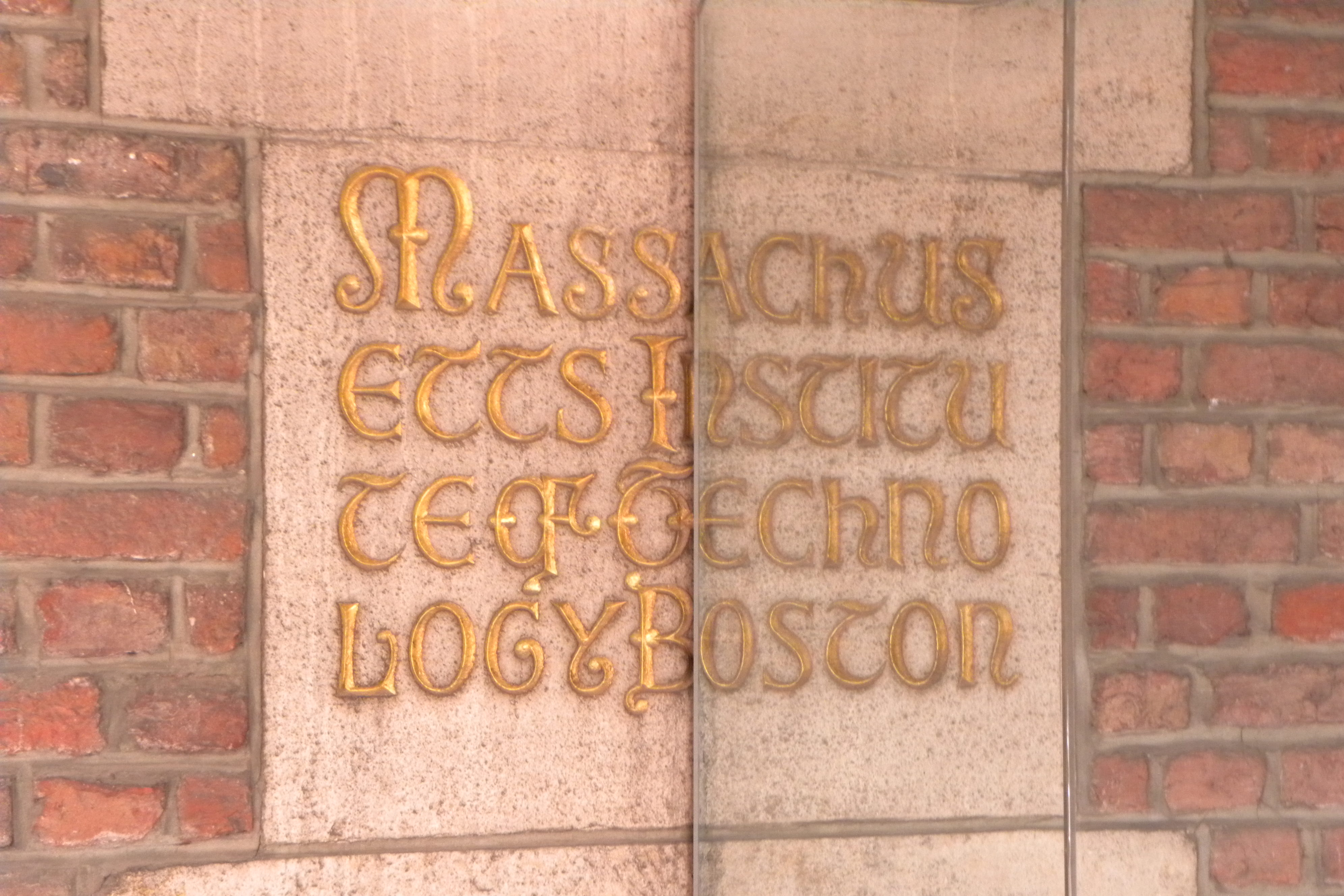 Engraved stone, facade of the Louvain (Belgium) university library. Commemorates the financial support received from the Massachusetts Institute of Technology (US) to rebuild the library after its bombing in 1914.